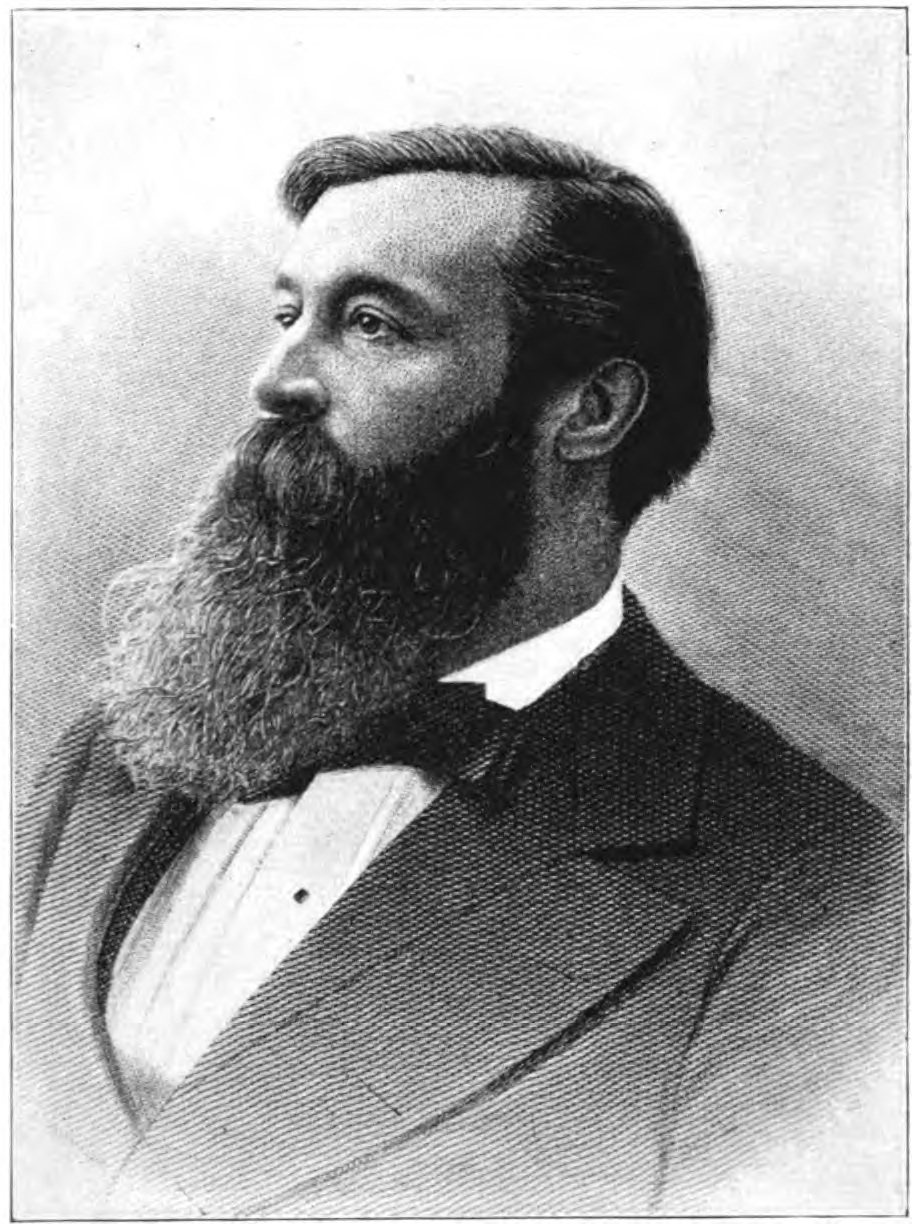 Edward Follansbee Noyes.